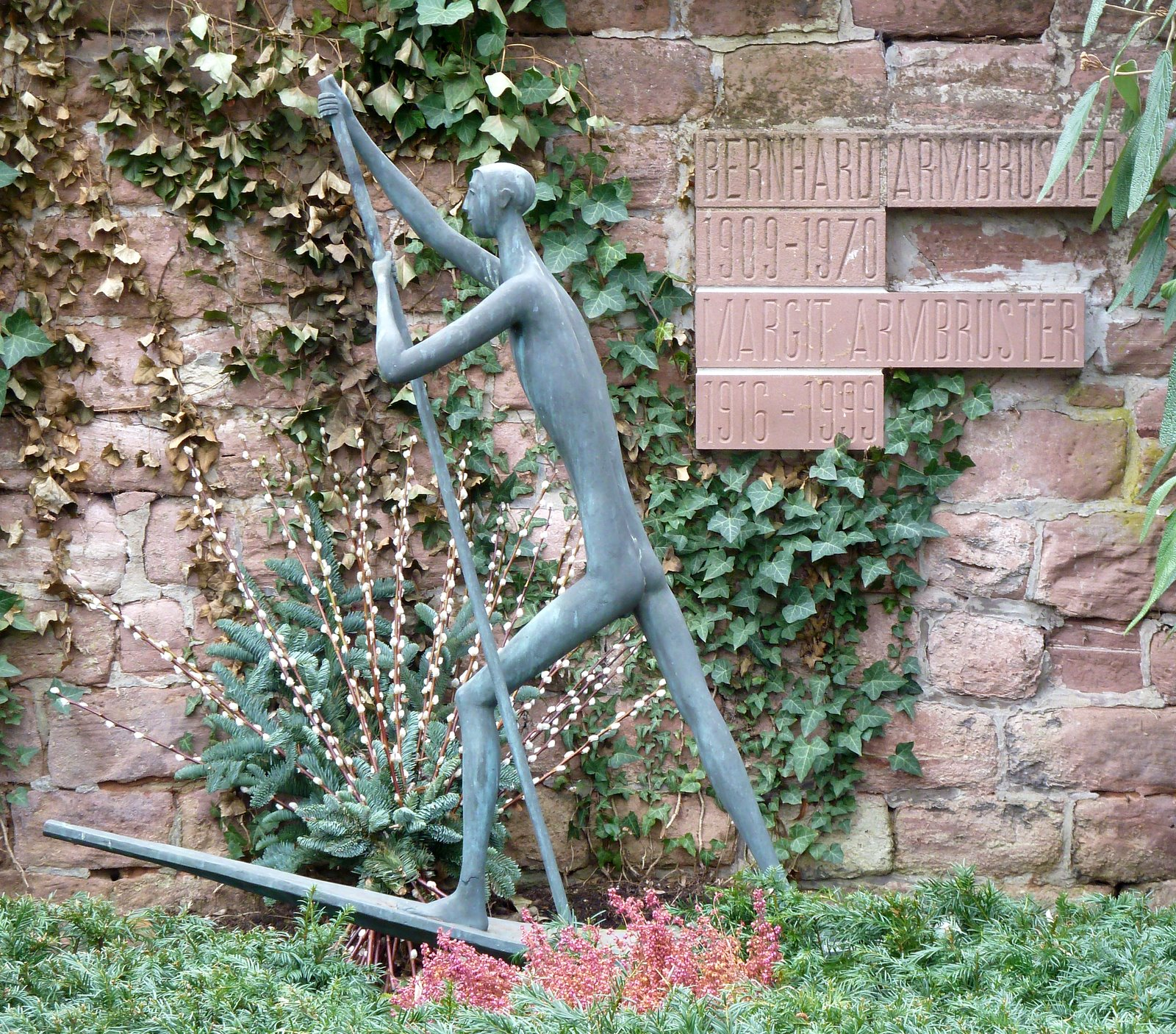 Dehof Plastik